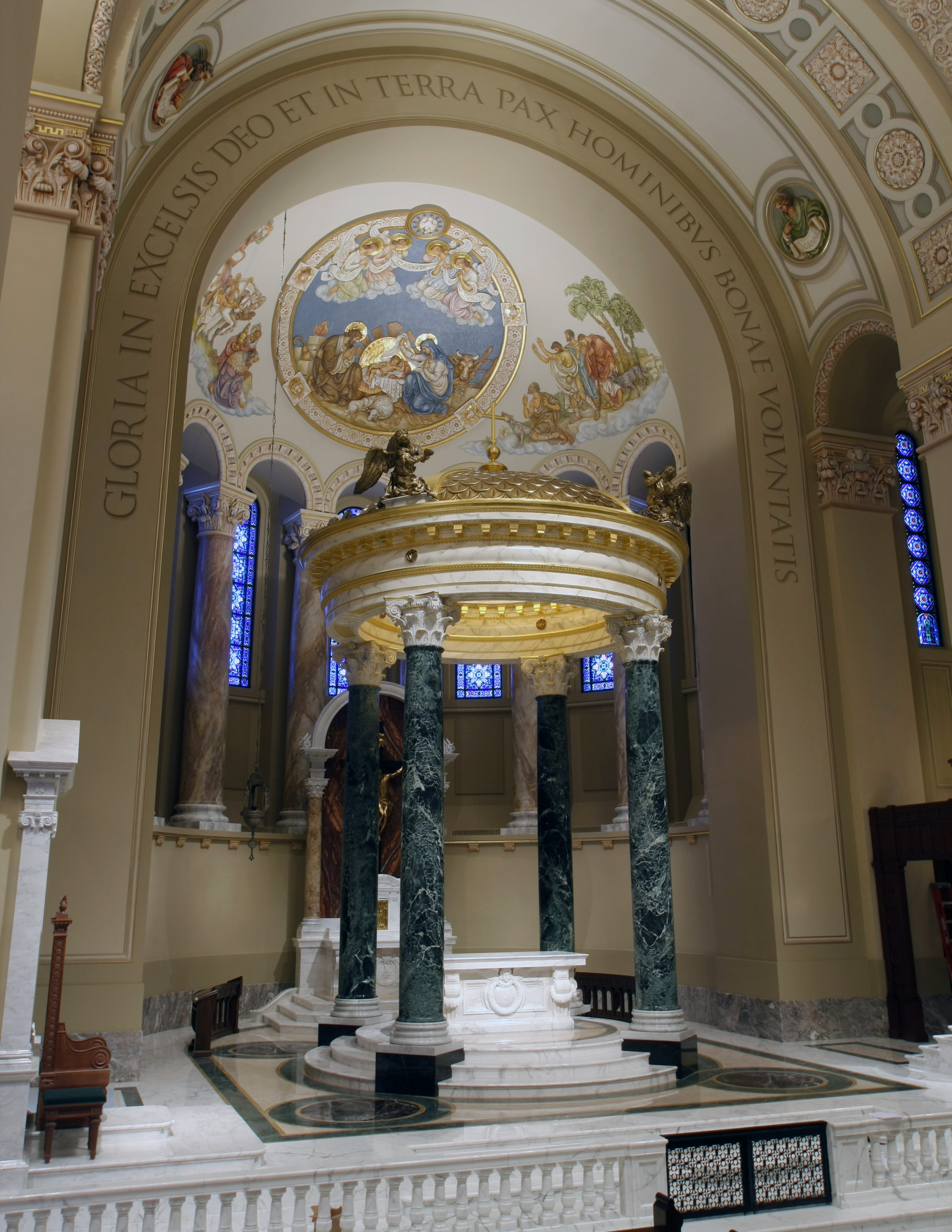 SIOUX FALLS, SD - JULY 11, 2011